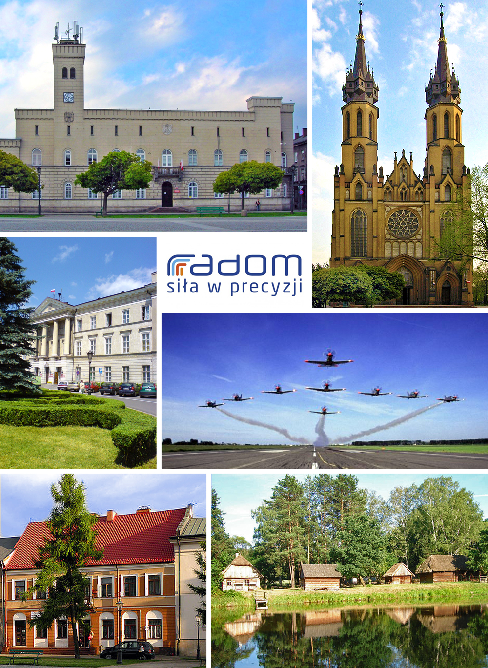 Radom - Montage of photos available on Wiki Commons